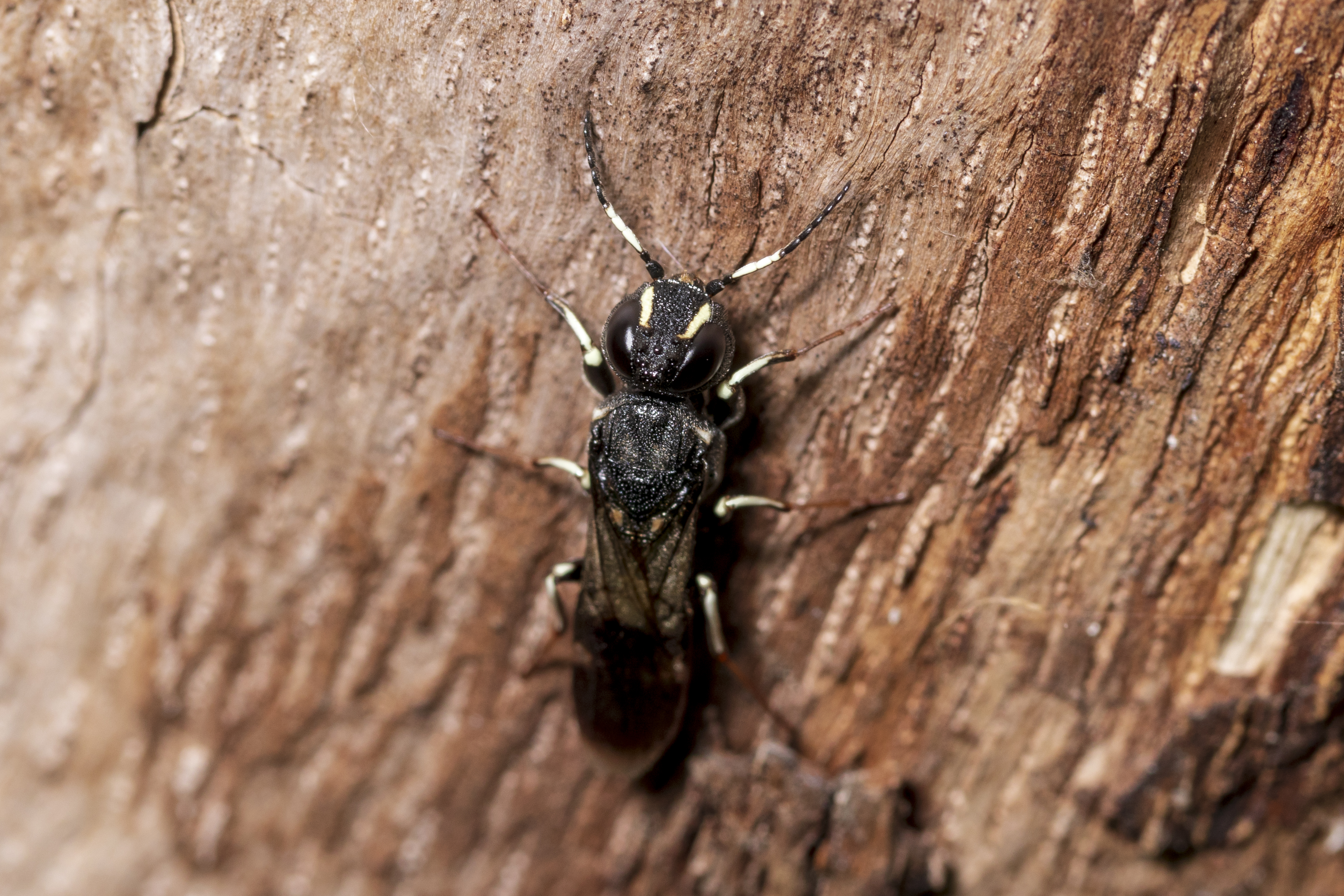 Parasitic wood wasp on trunk of dead tree on bank of river